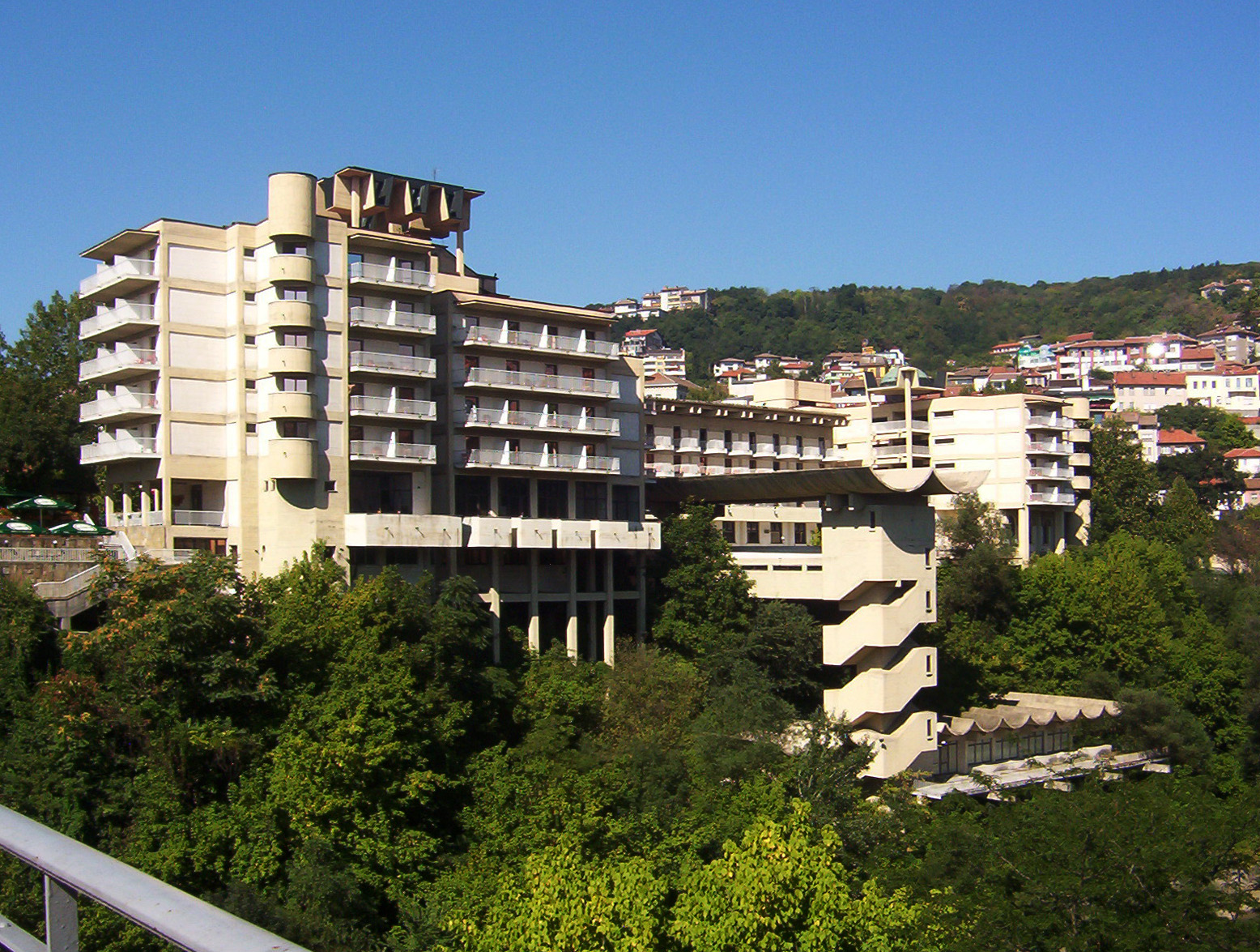 grandhotel "Veliko Turnovo", 1967